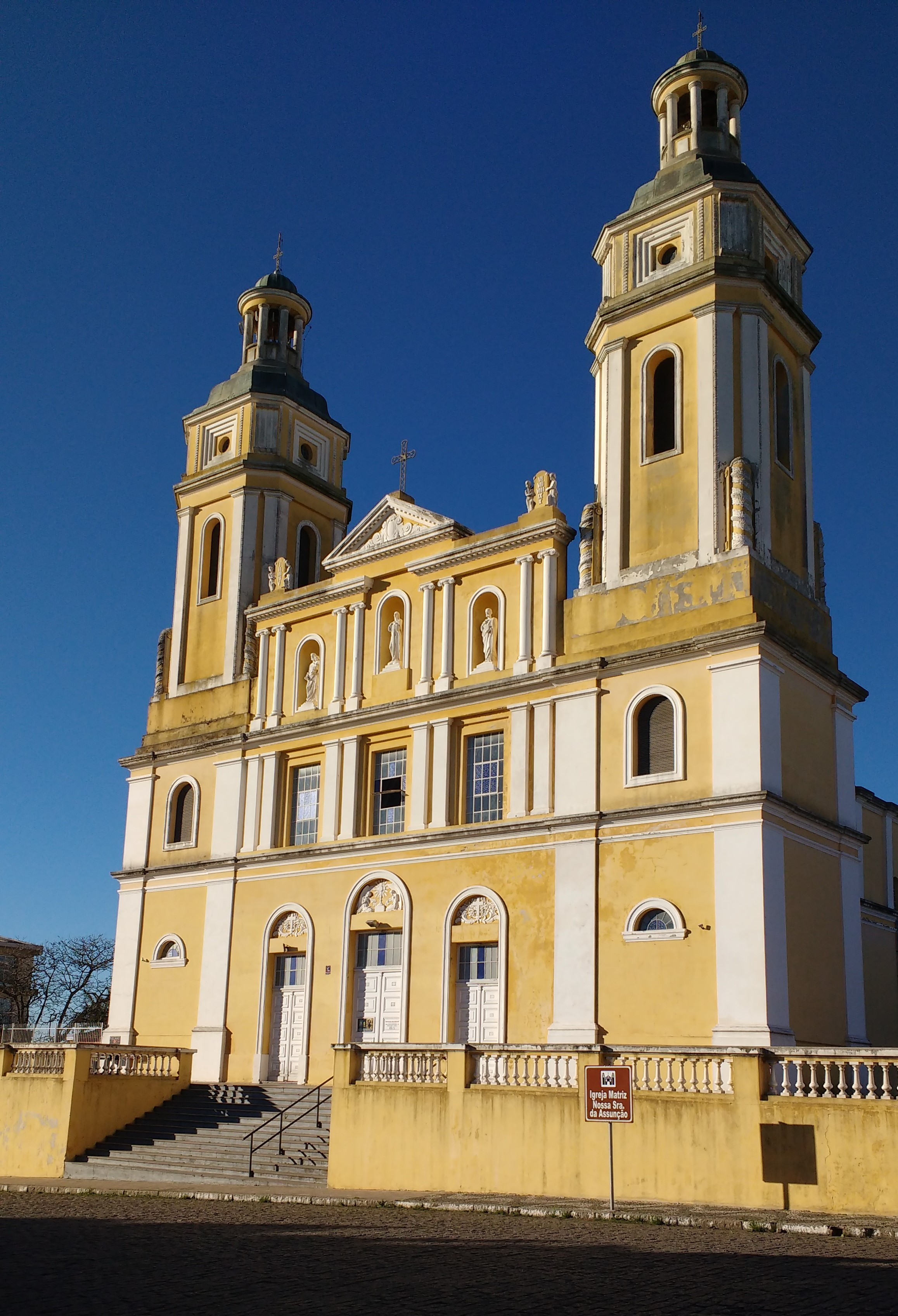 The Church of Our Lady of the Assumption, in Caçapava do Sul, Brazil.